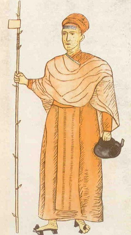 Roberto de Nobili, Italian Jesuit in Malabar around 1650. Portrait by Baltasar da Costa